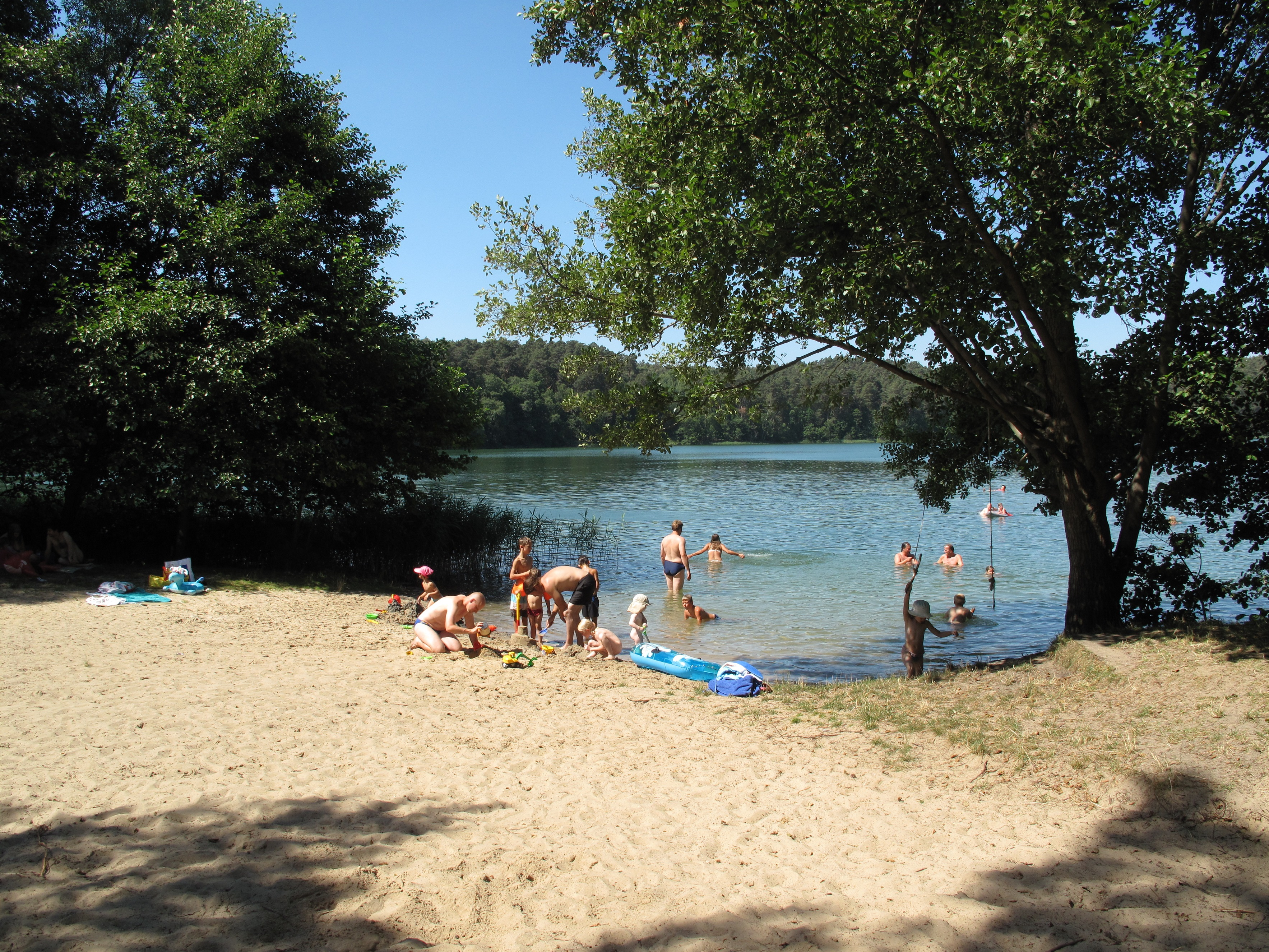 Beach at the eastern shore of the Springsee. The Springsee is a lake in Limsdorf, which is a part of the town Storkow, District Oder-Spree, Brandenburg, Germany. The lake covers about 57 hectare and has a depth of max. 20 meters. It is situated in the Dahme-Heideseen Nature Park.